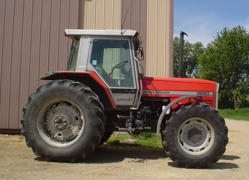 A Massey Ferguson 3660 tractor on a farm in the United States. This tractor is about 13 years old, and belongs to my dad.